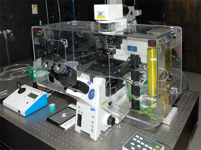 Olympus FluoView FV1000 confocal microscope with stage under automated computer control for producing very large field 3-D mosaics. It is put on a optical table. To prevents air movements and temperature gradients and to keep cells alive during observation the microscope is enclosing in a micro cell incubator (the transparent box of acrylic glass (plexiglas)) - NCMIR